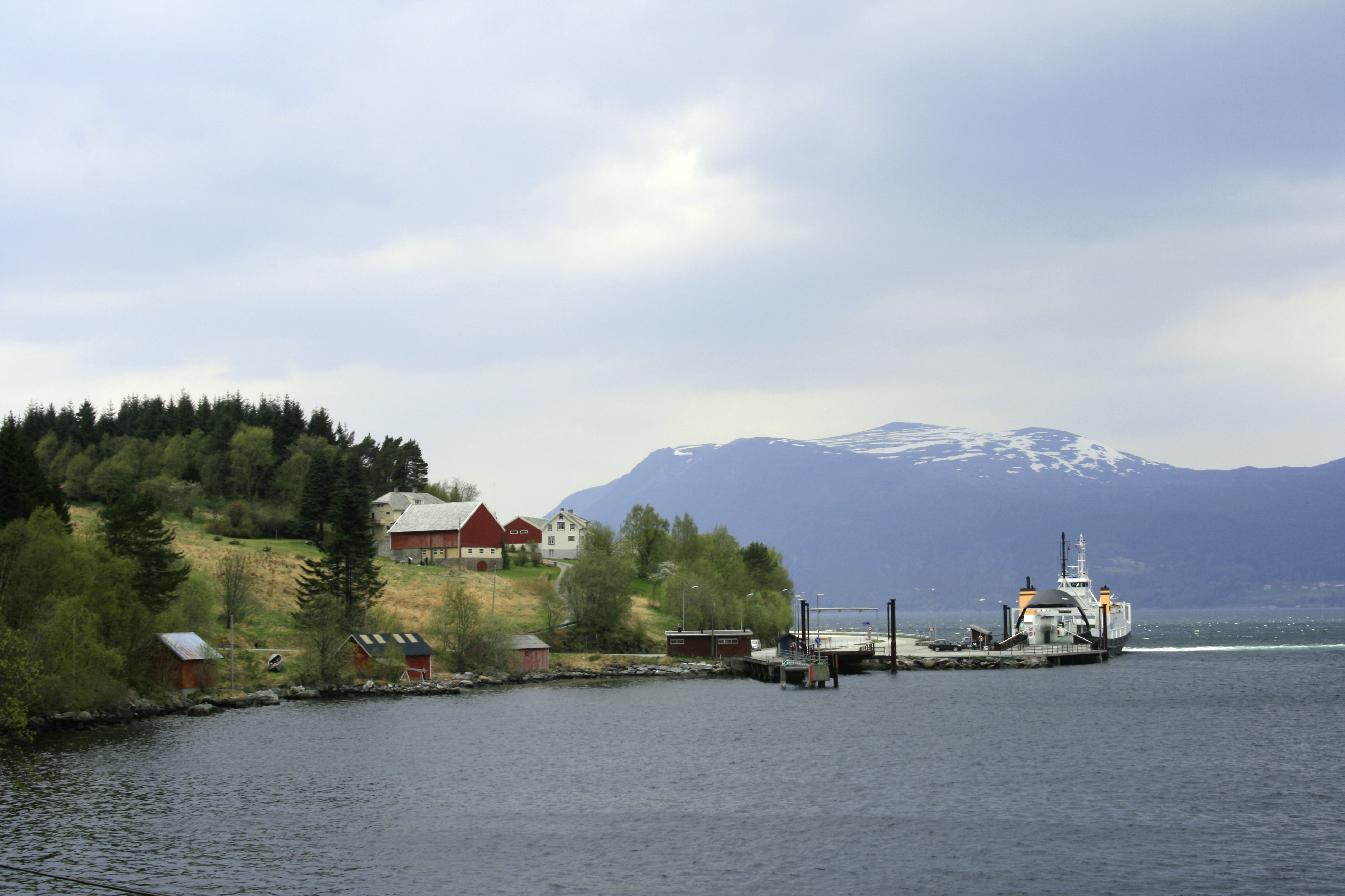 Festøya, Ørsta, Møre og Romsdal, Norway